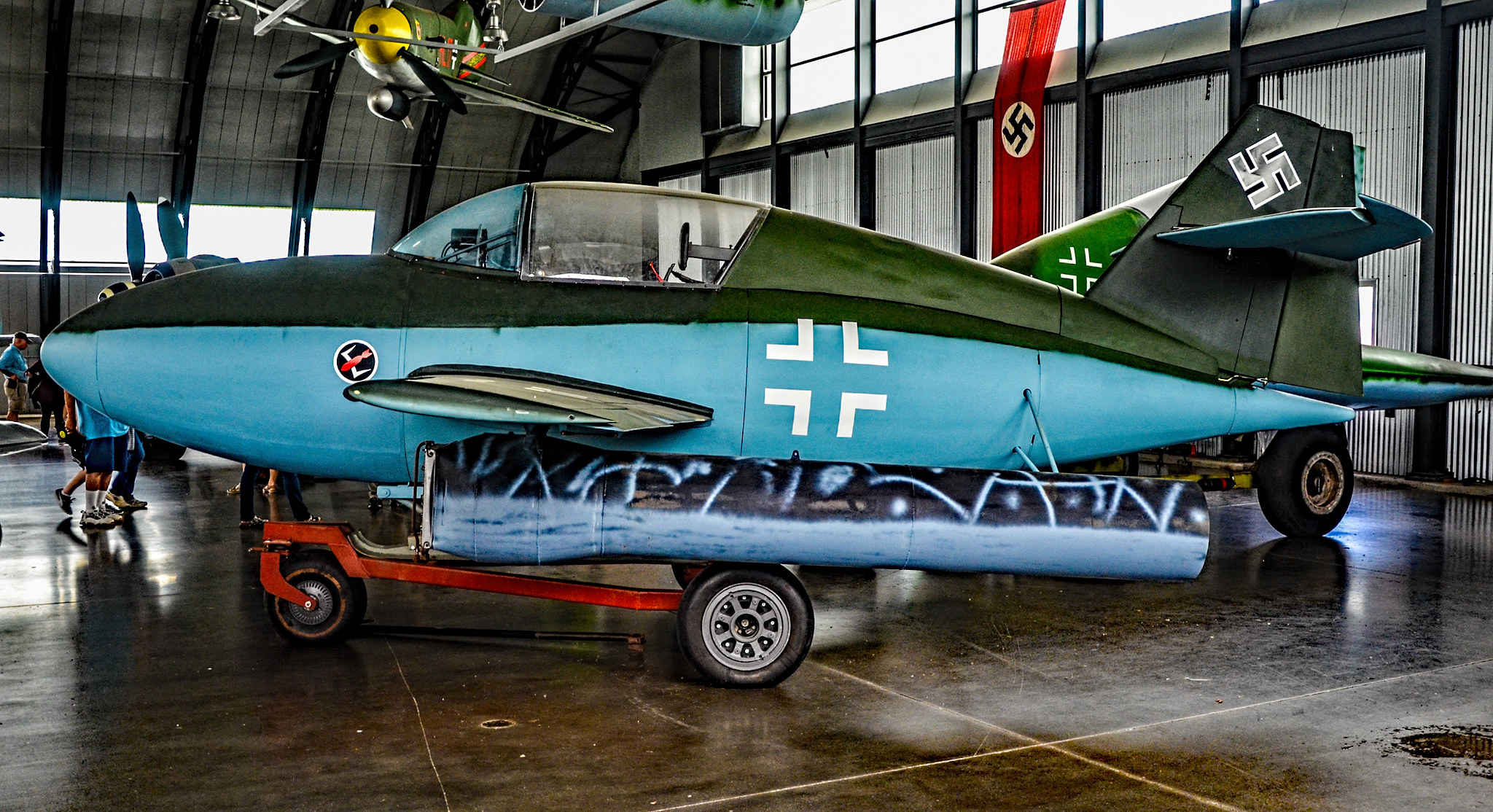 Messerschmitt project P.1073 in 1941... Military Aviation Museum Virginia Beach Airport (42VA) Photo: TDelCoro July 21, 2018